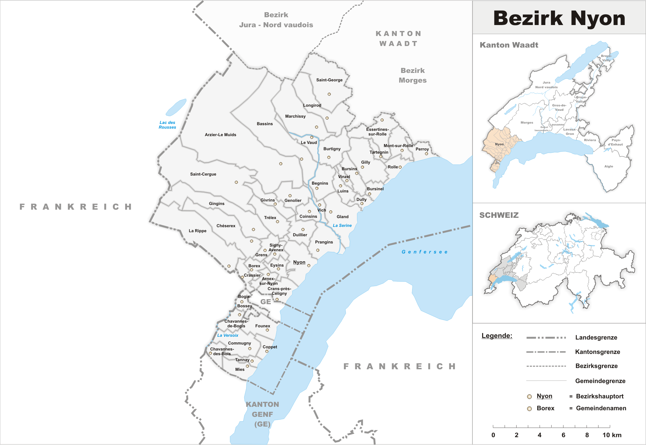 Municipalities in the district of Nyon Map drawn by Tschubby